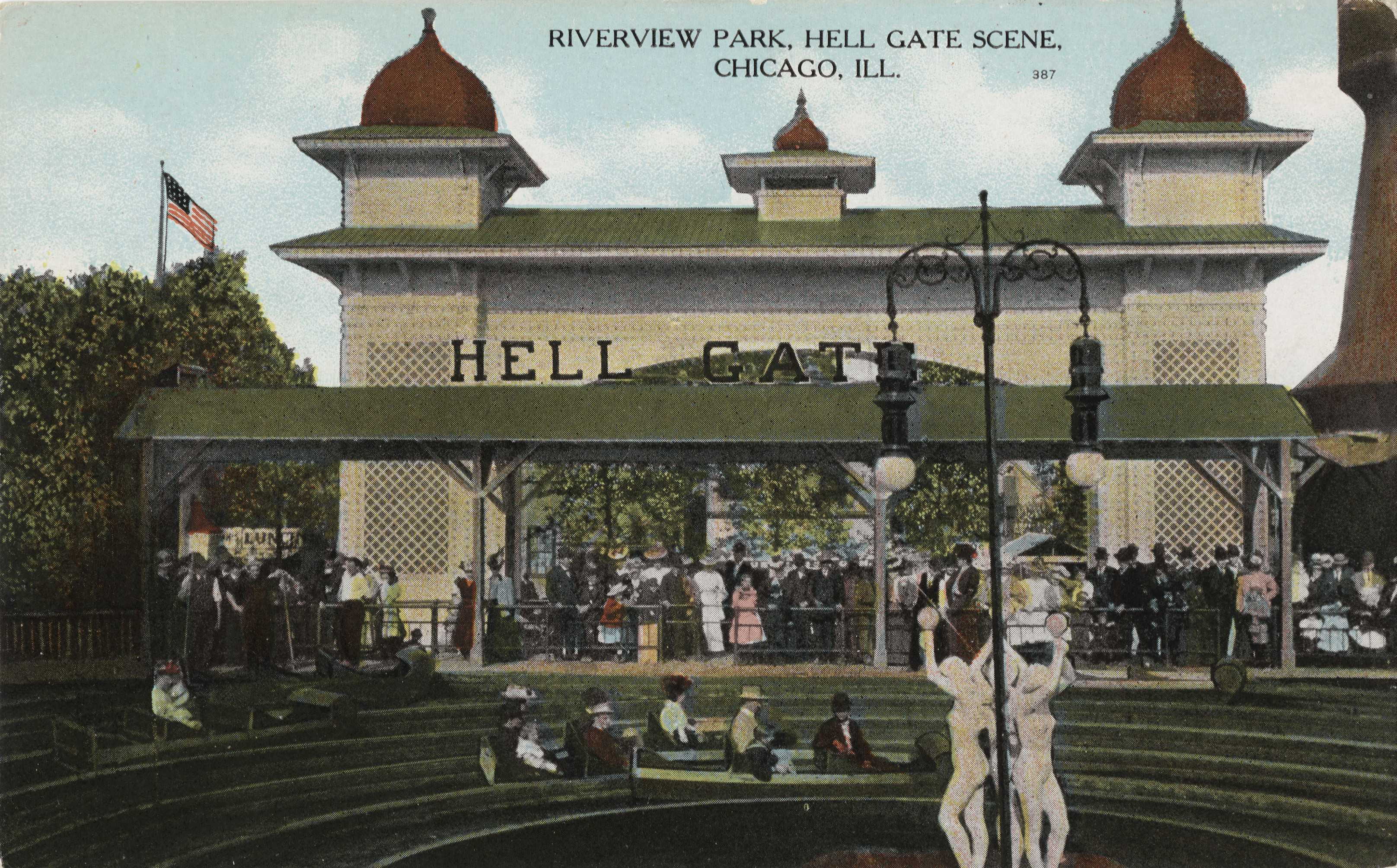 From the University of Maryland Digital Collections website: "Riverview Park, Hell Gate scene, Chicago, Illinois, circa 1907-1914. Postcard number: 387."